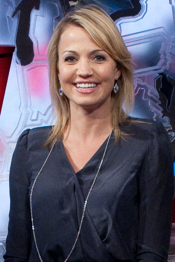 Los conductores, Colin Cowherd y Michelle Beadle de "Sportsnation" con los conductores, David Faitelson y Adriana Monsalve, del nuevo programa "Nacion ESPN".